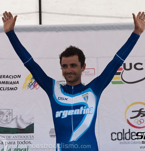 Leandro Messineo, Argentine cyclist Pan American Champion 2011 Individual Time Trial